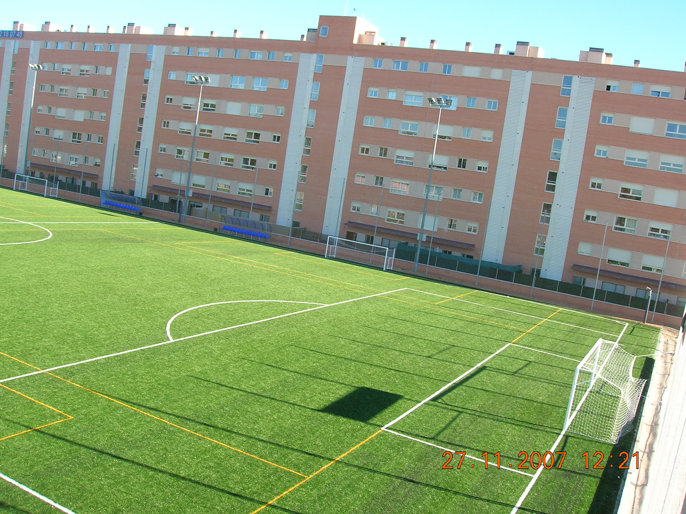 Sportsfield Alameda de Osuna